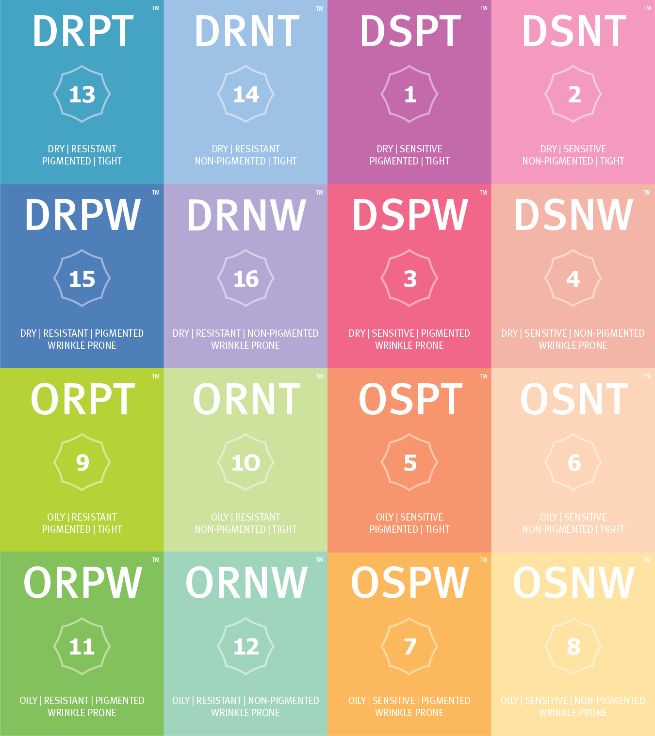 Baumann Skin Types